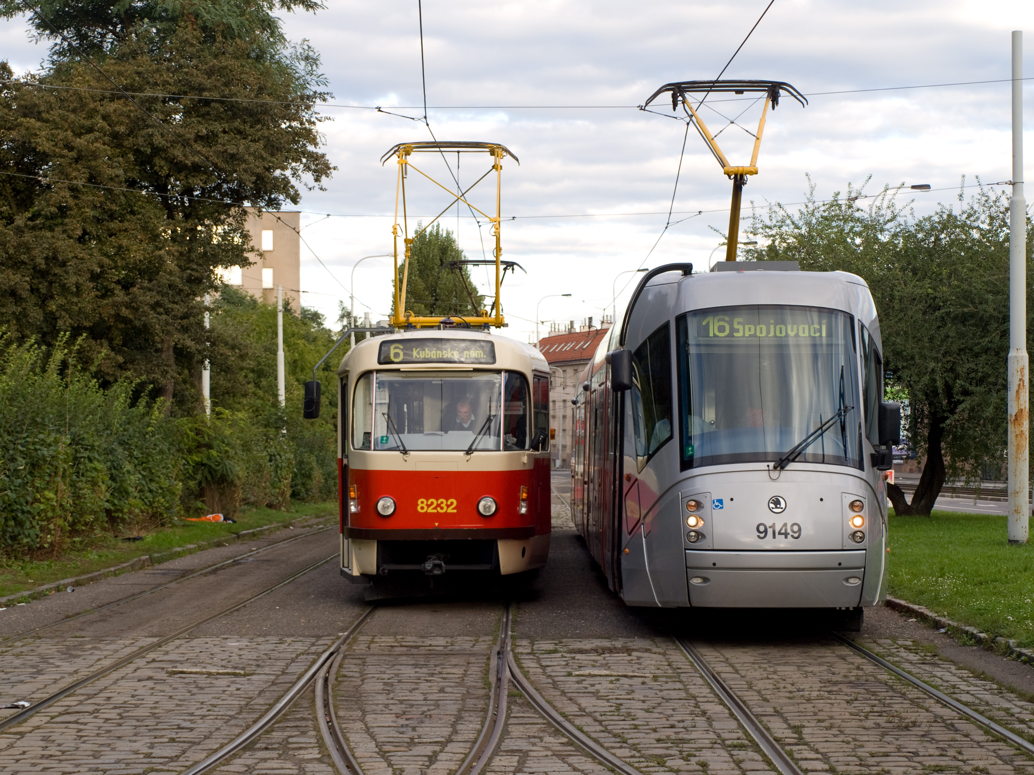 Kotlářka tram loop, day before reopening of tram track Vozovna Motol – Sídliště Řepy